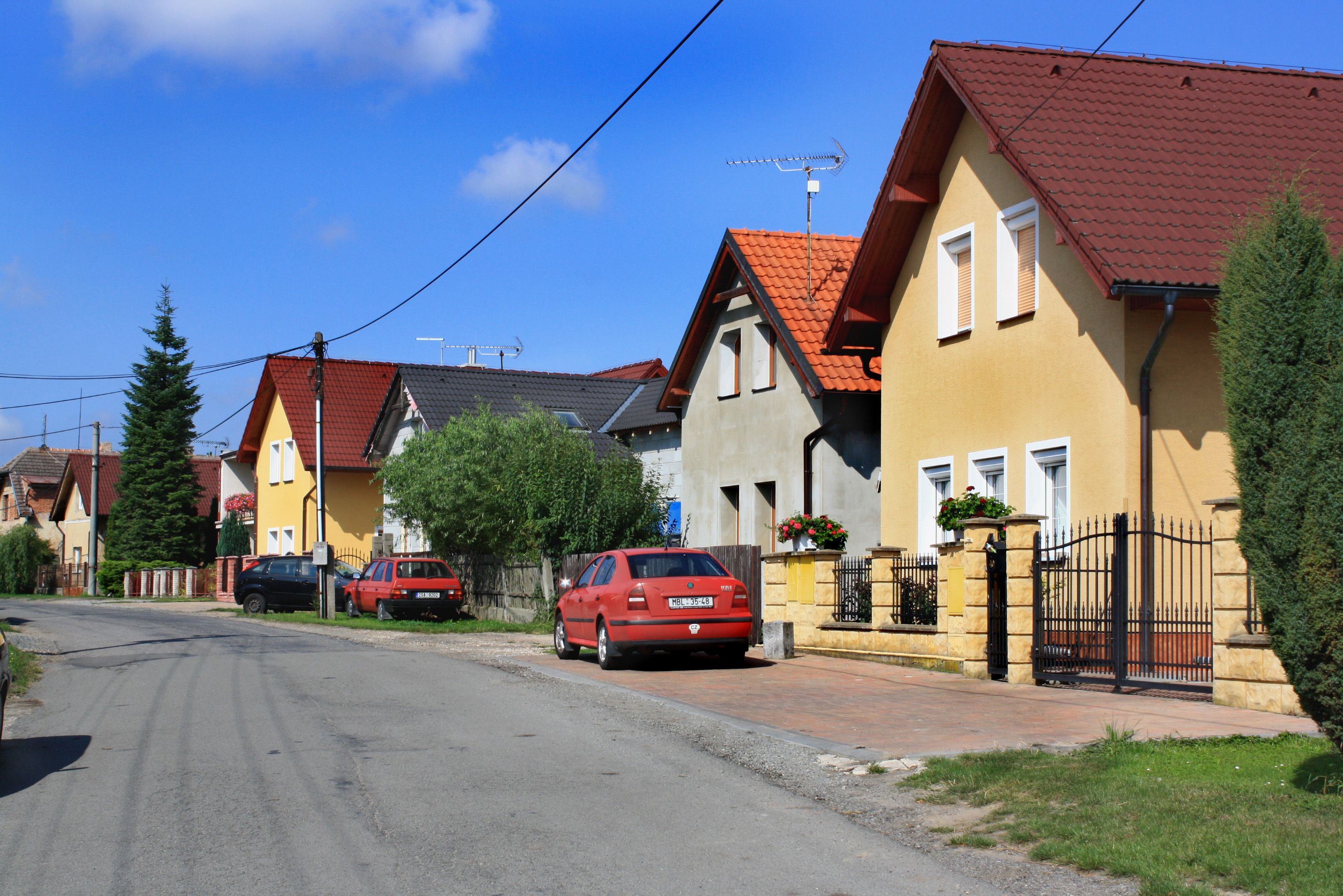 West part of Němčice village, Czech Republic